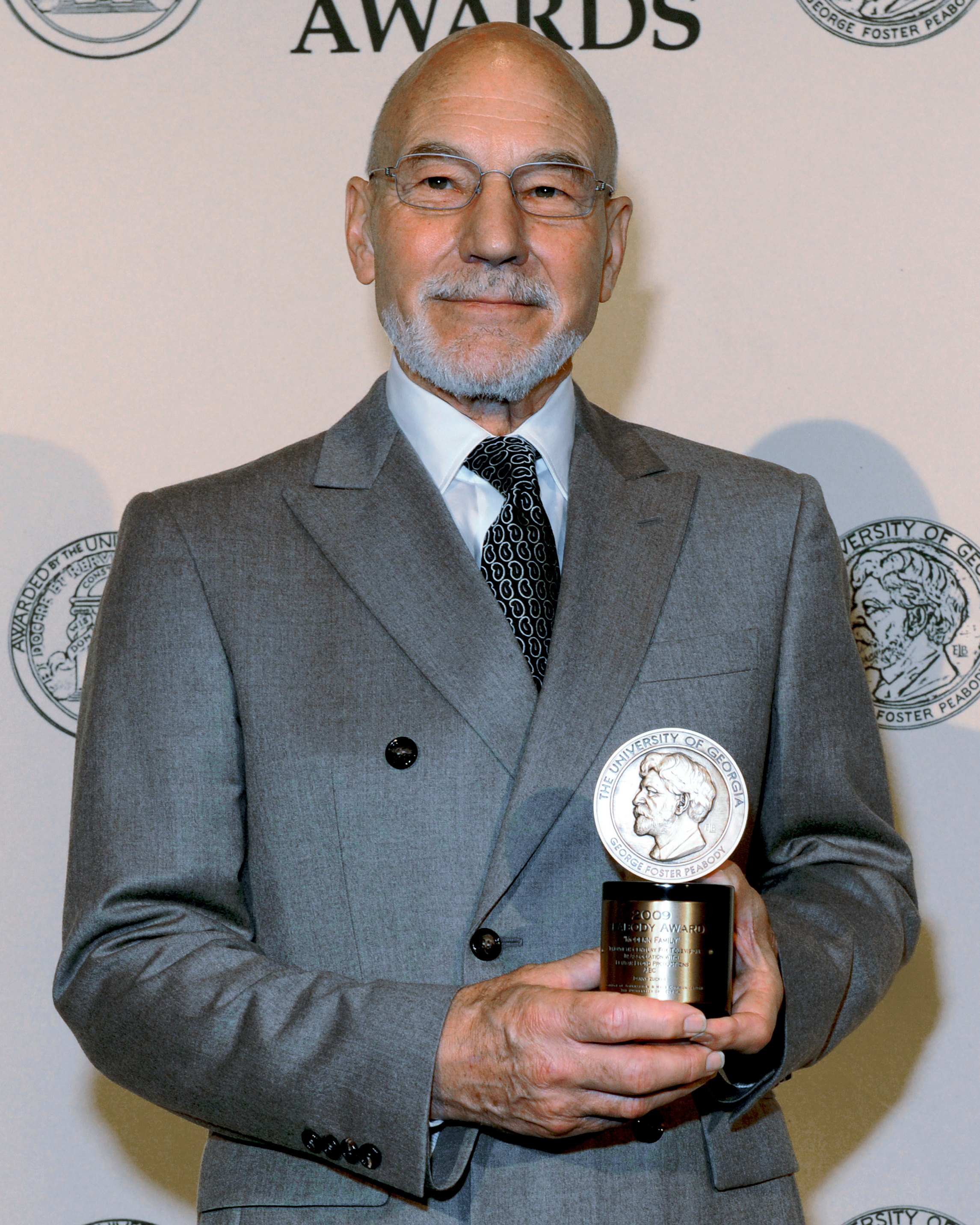 Patrick Stewart at the 71st Annual Peabody Awards Luncheon 2012.